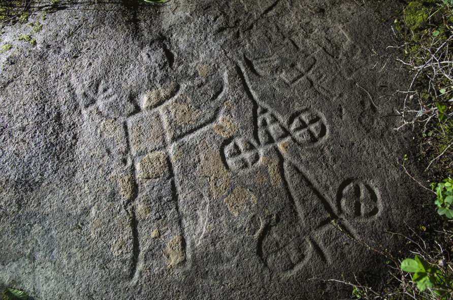 Nightphoto of rockcarving about 5 km east of Askum church Bohuslän Sweden